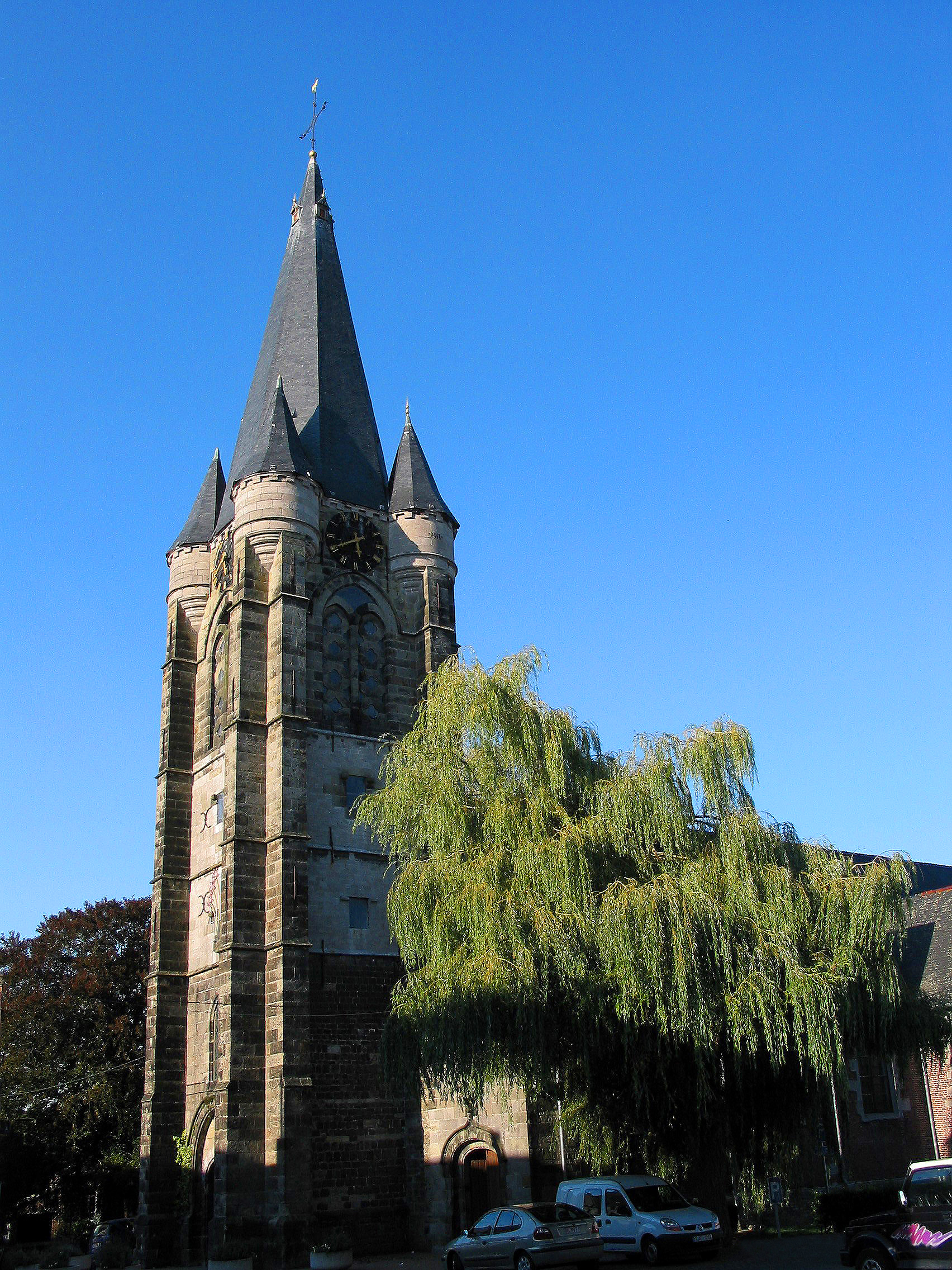 Frasnes-lez-Buissenal (Frasnes-lez-Anvaing) - Belgium, the Sint Martin's church (XVth century).